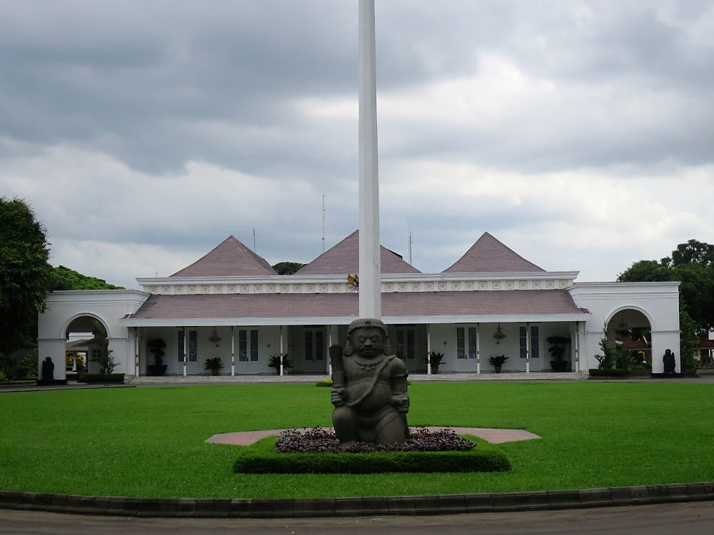 Gedung Agung presidential palace in Yogyakarta, Indonesia